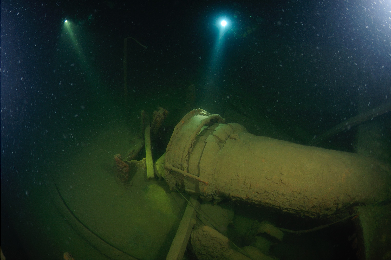 Broken mast on the wreck of S/S Juergen Fritzen. Two divers are visible in the background.